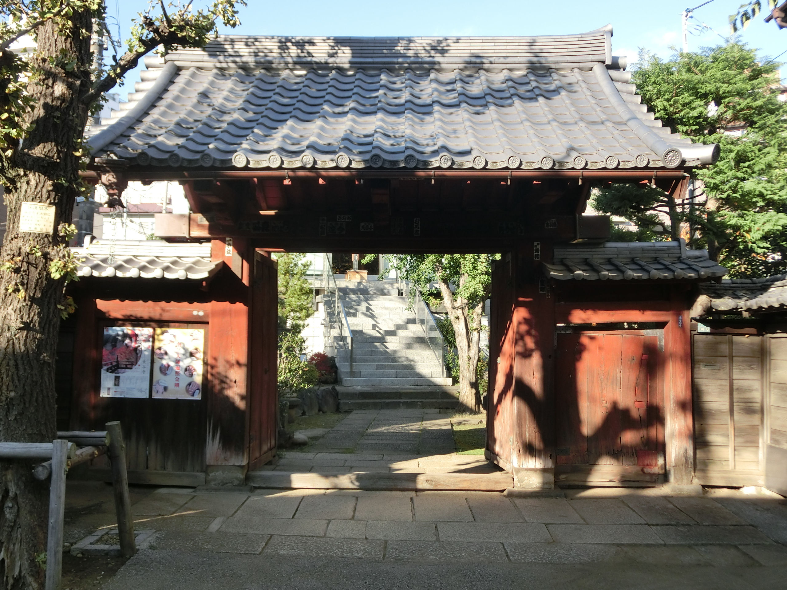 Konsho-in (Toshima, Tokyo)